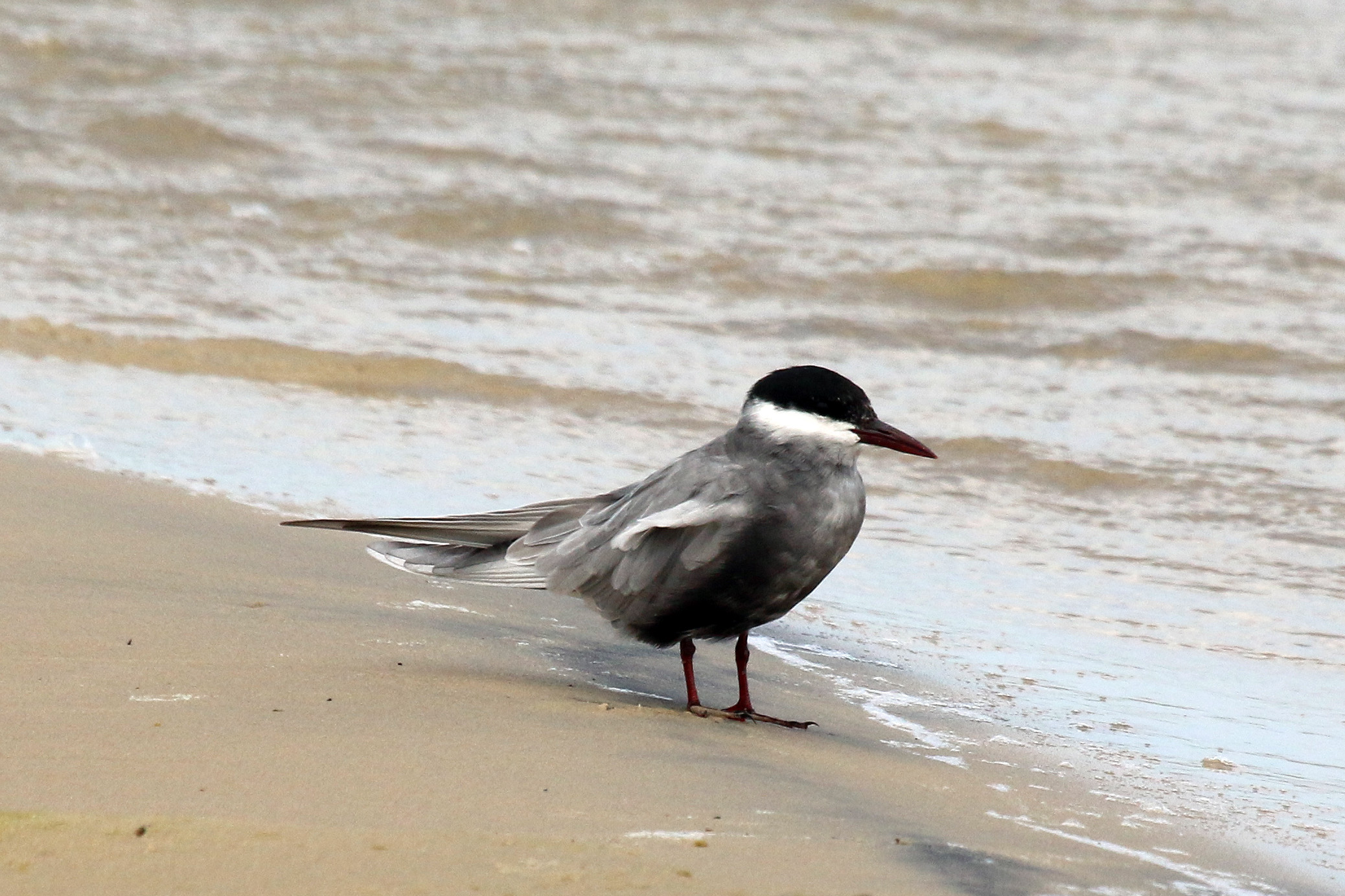 Whiskered tern (Chlidonias hybrida), Lake Sibaya, Kwa-Zulu Natal, South Africa